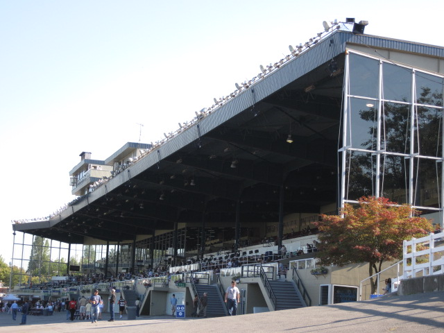 The grand stand of Hastings_Racecourse, in Vancouver, B.C., Canada.